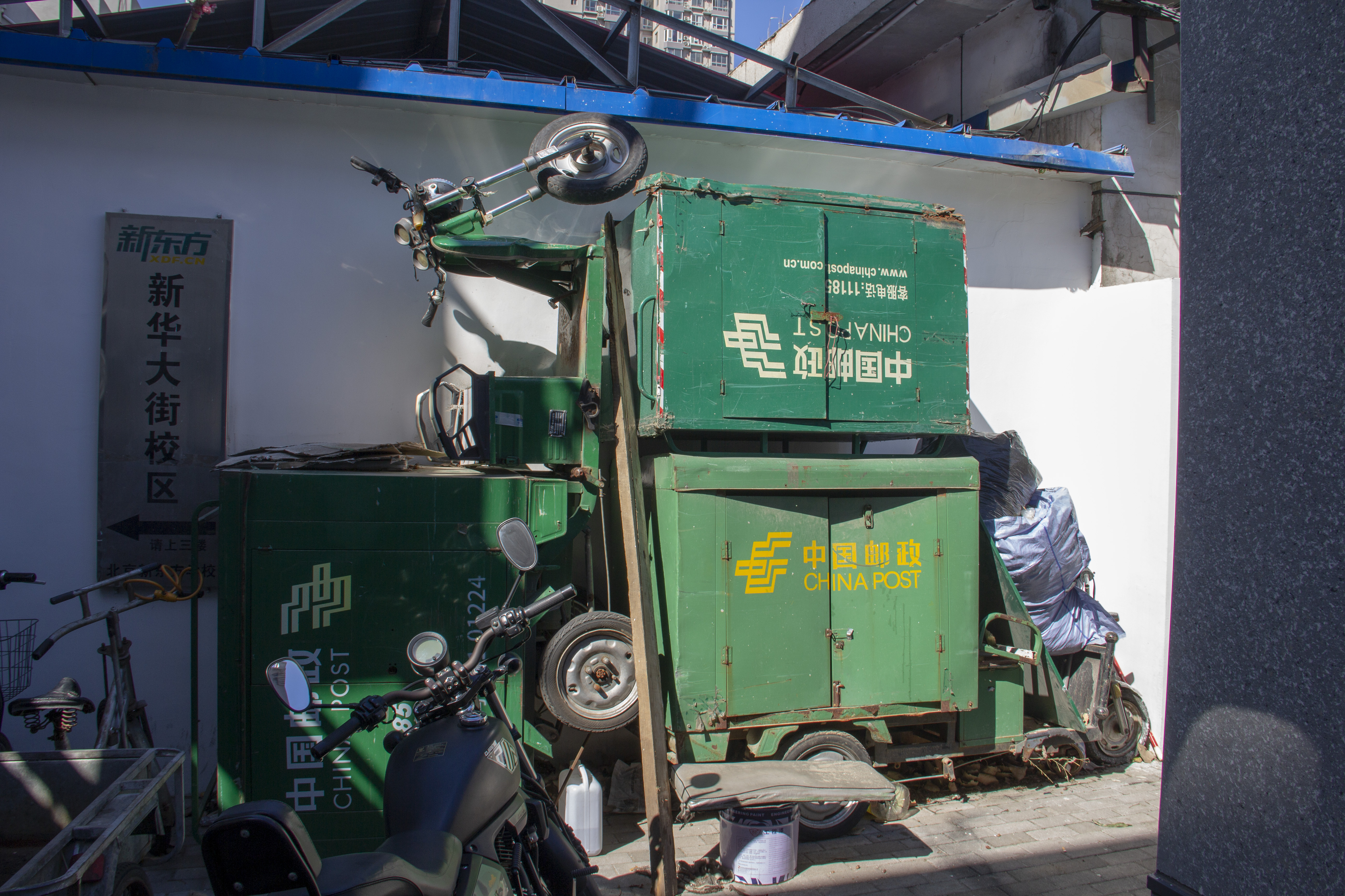 China Post delivery tricycles